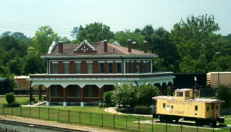 The T&P Depot, constructed in 1912, in the Ginocchio National Historic District houses the Texas & Pacific Railway Museum and also is a functioning Amtrak station. Texas & Pacific Depot in Marshall, Texas.